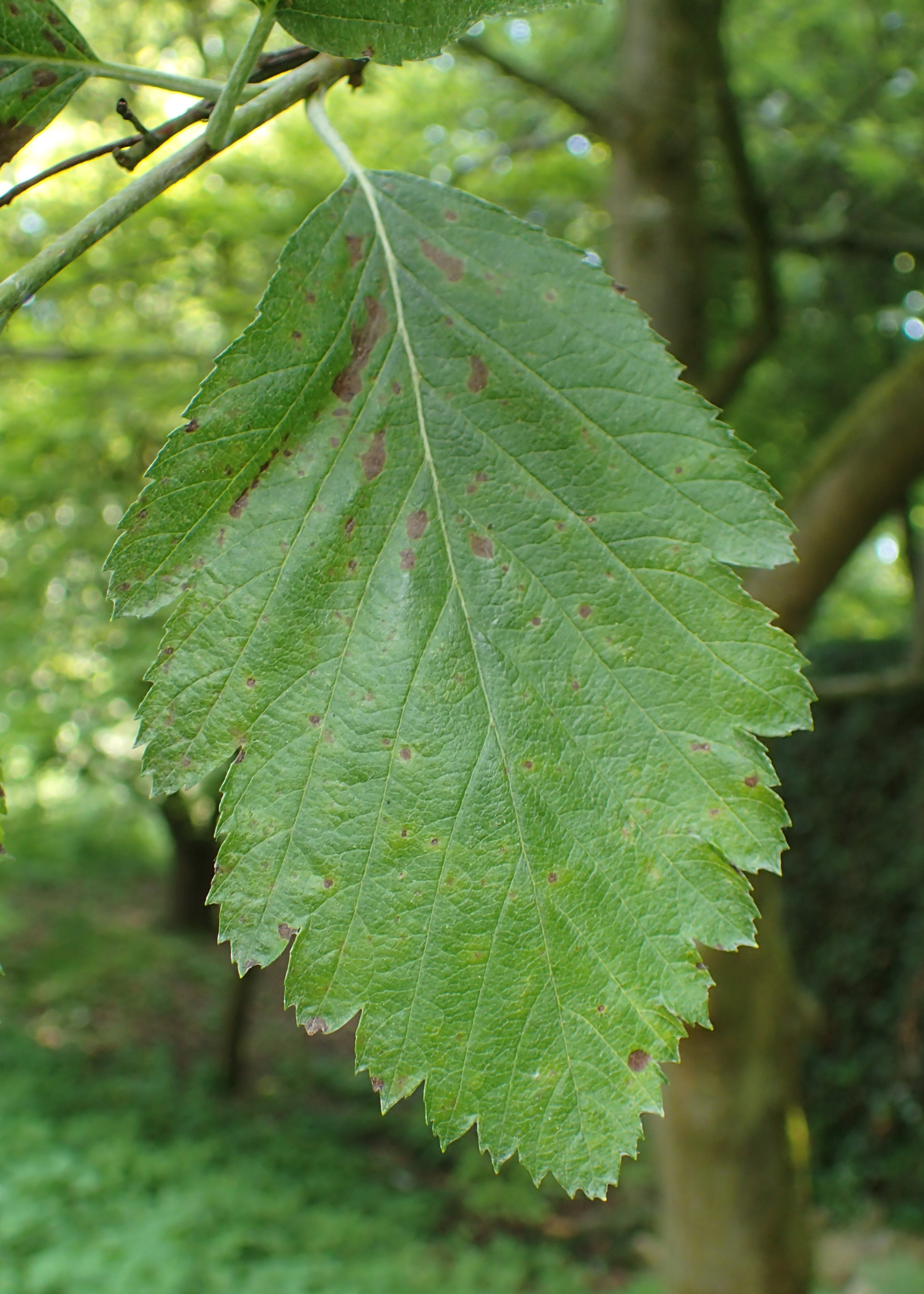 Sorbus austriaca in Alter Botanischer Garten der Universität Göttingen